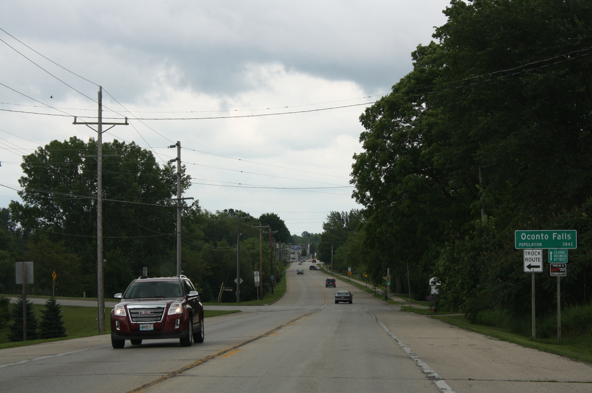 Looking southeast at the welcome sign for Oconto Falls, Wisconsin on Wisconsin Highway 22.